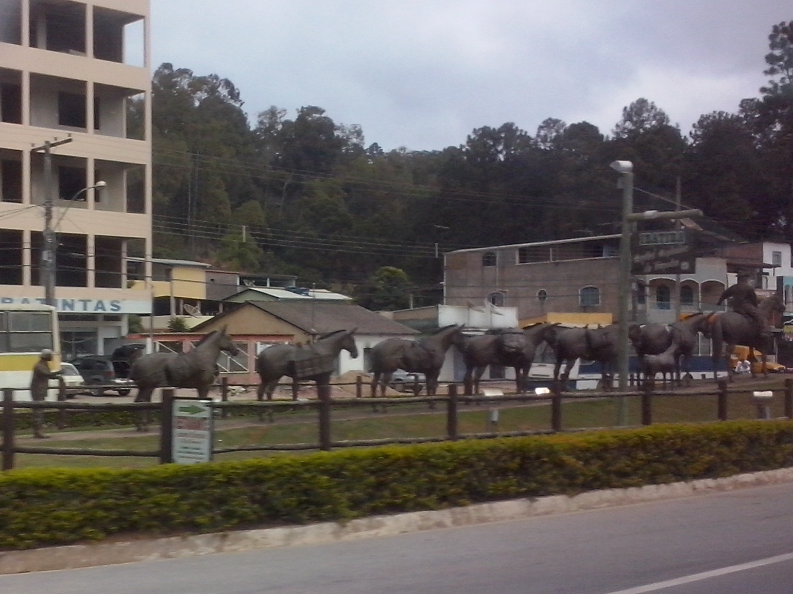 Monument to honor the drovers na BR-262, in Ibatiba, Espírito Santo, Brazil.